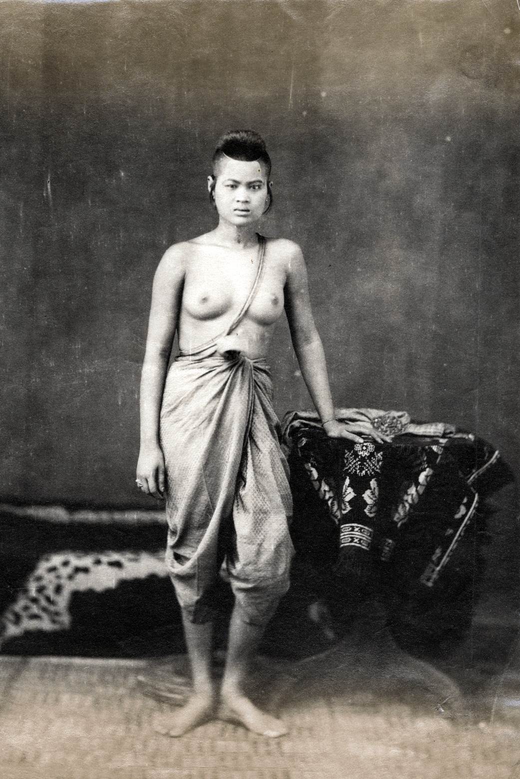 Siamese woman in traditional costume, 1900